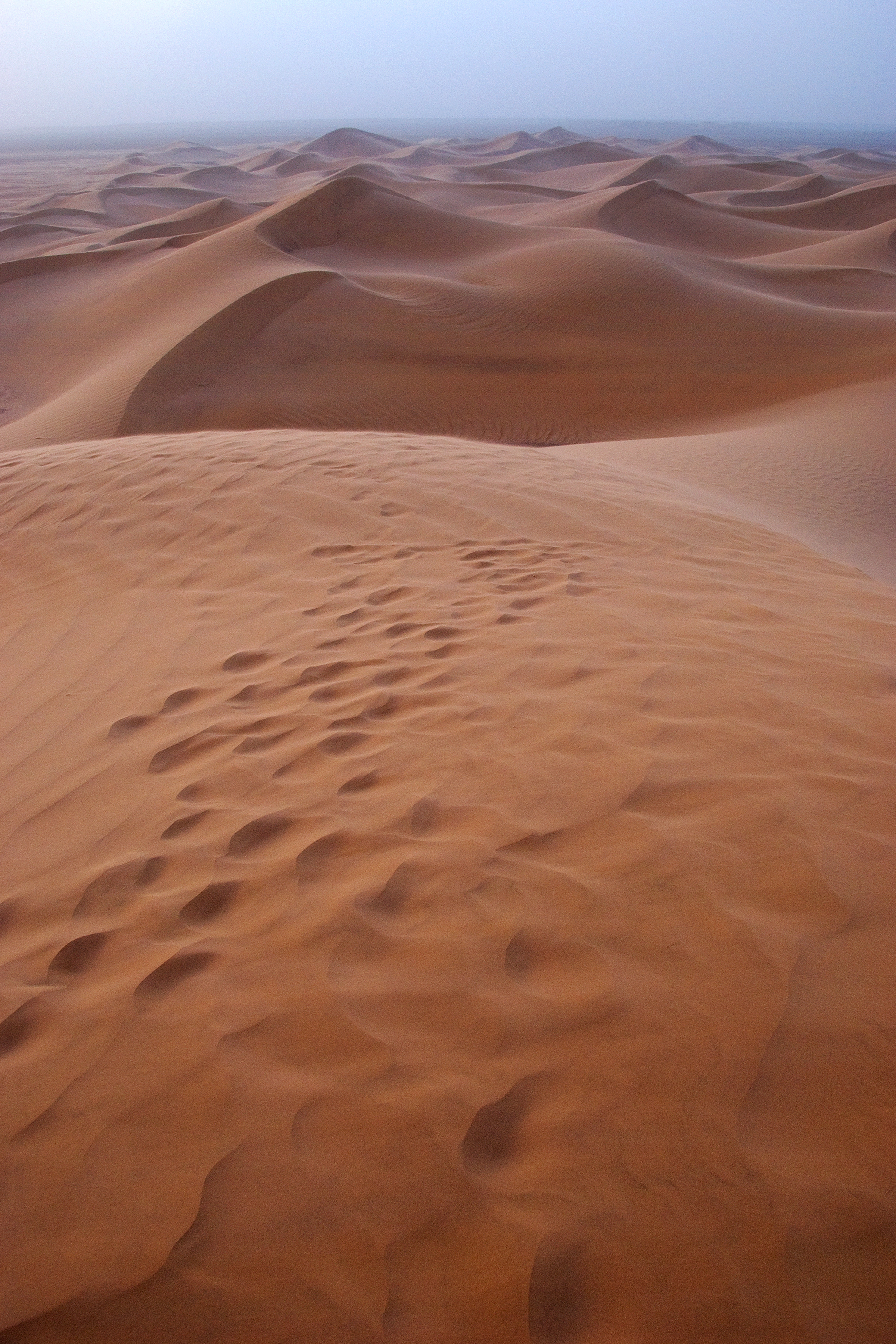 Erg Lehoudi (Dunes of the Jews) The whole set from Morocco